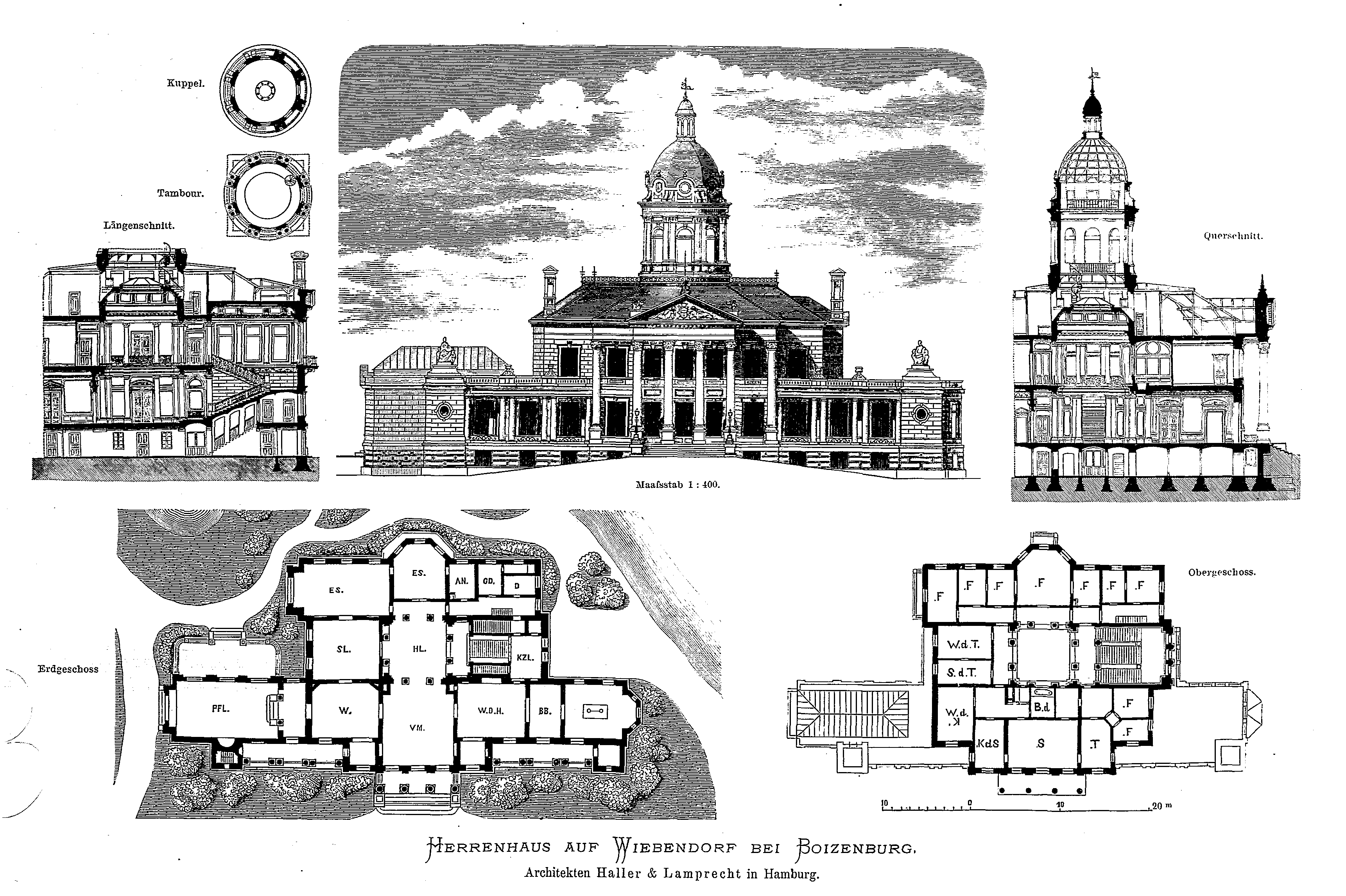 Manor house Wiebendorf, built in 1885